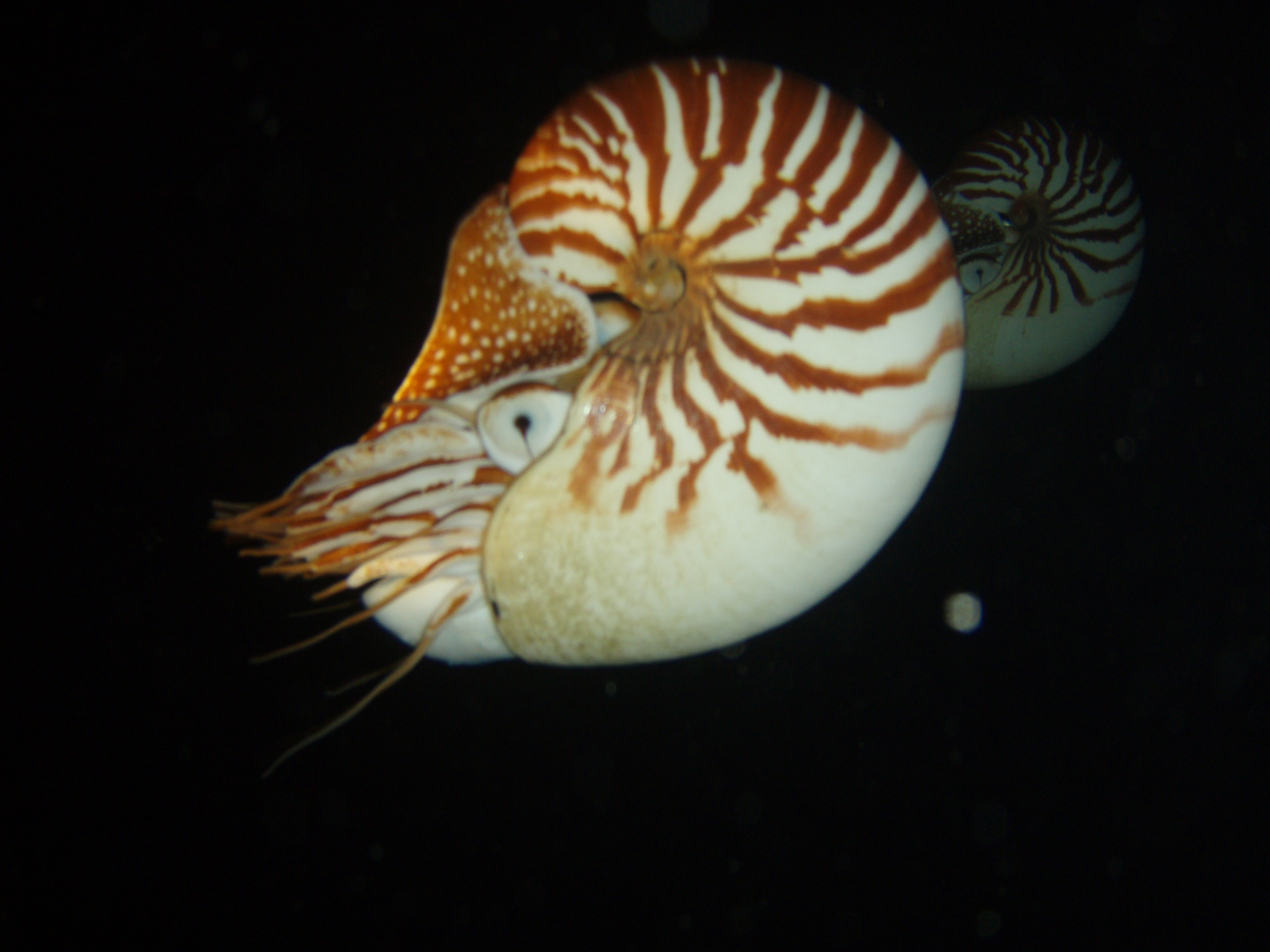 couple of Nautilus macromphalus, night dive, 15 meters, Lifou, Sandal wood bay, New Caledonia